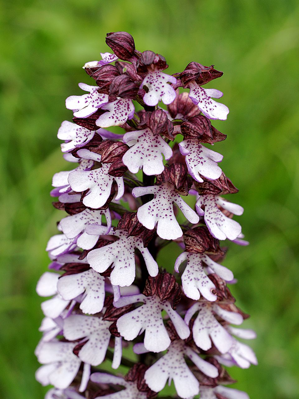 Orchis purpurea